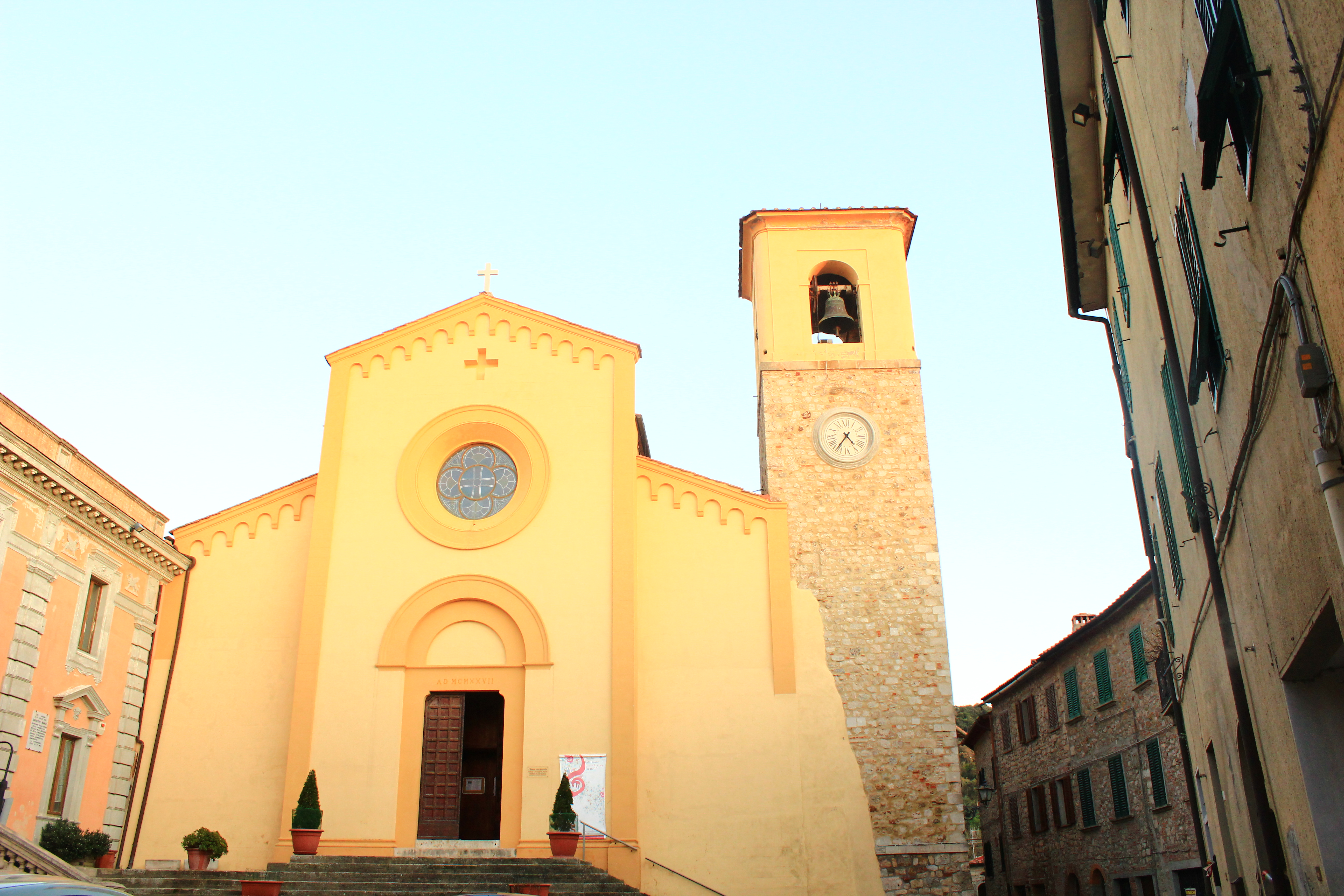 Church of San Giuliano in Gavorrano, Grosseto